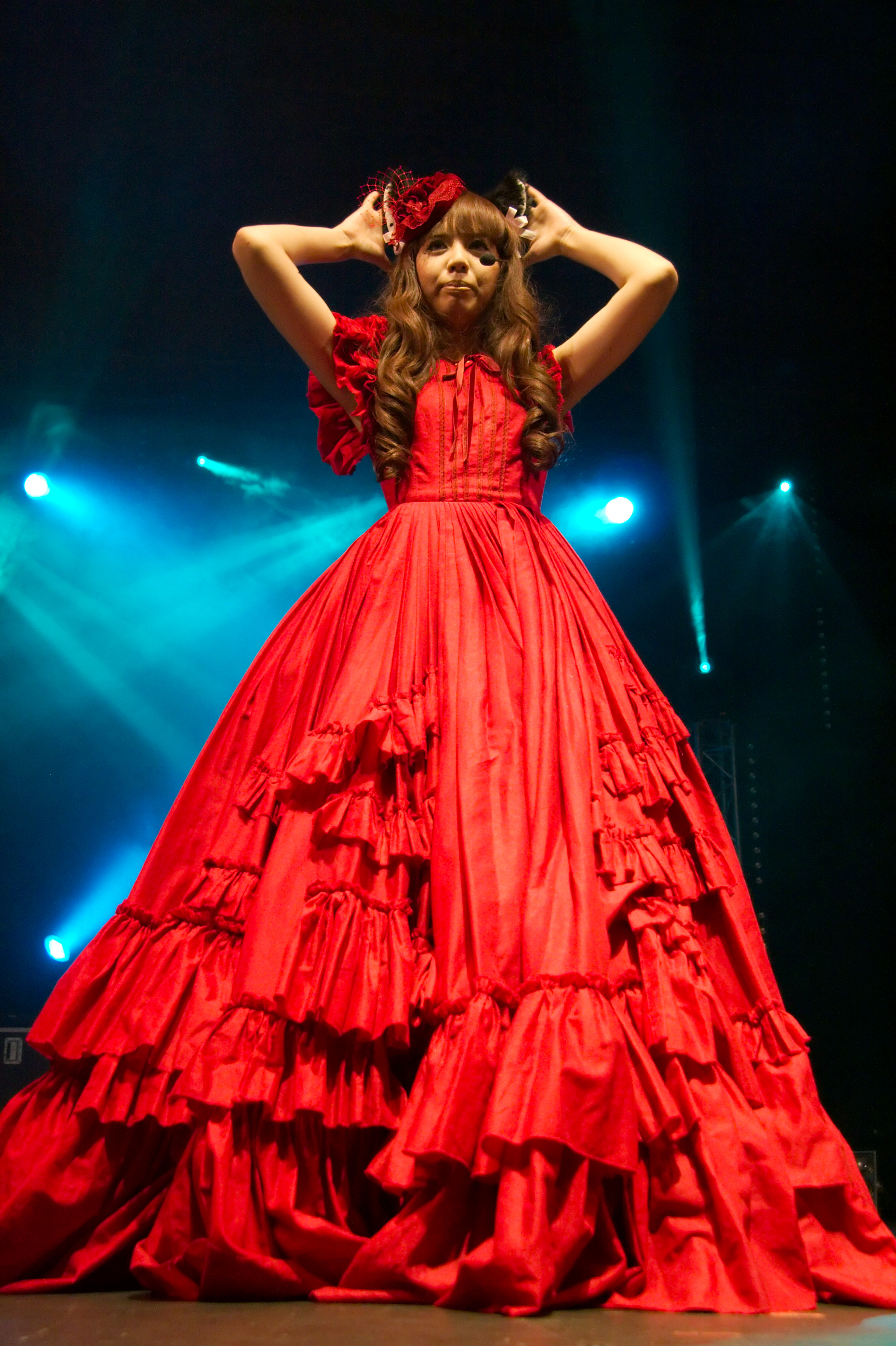 Kanon Wakeshima live at Japan Expo 2009 (Paris, France)